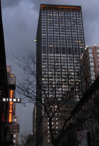 1633 Broadway, also known as Paramount Plaza, built in 1970 by Emery Roth & Sons.